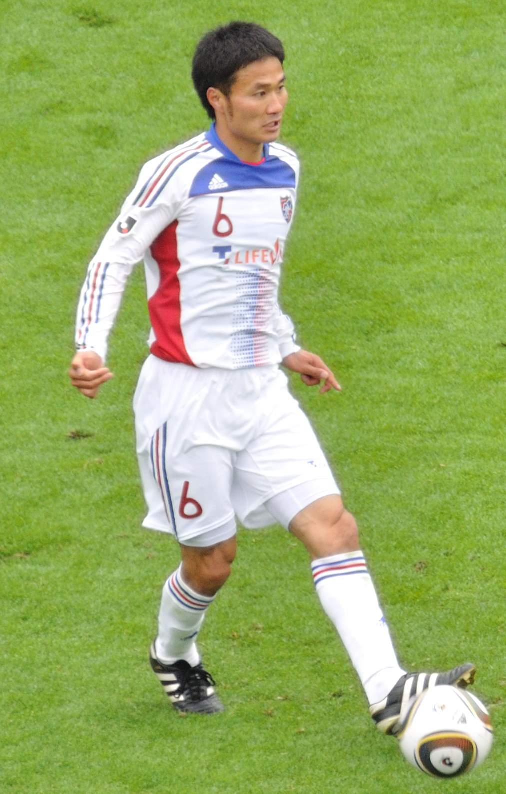 Yasuyuki Konno cropped from DSC_1558